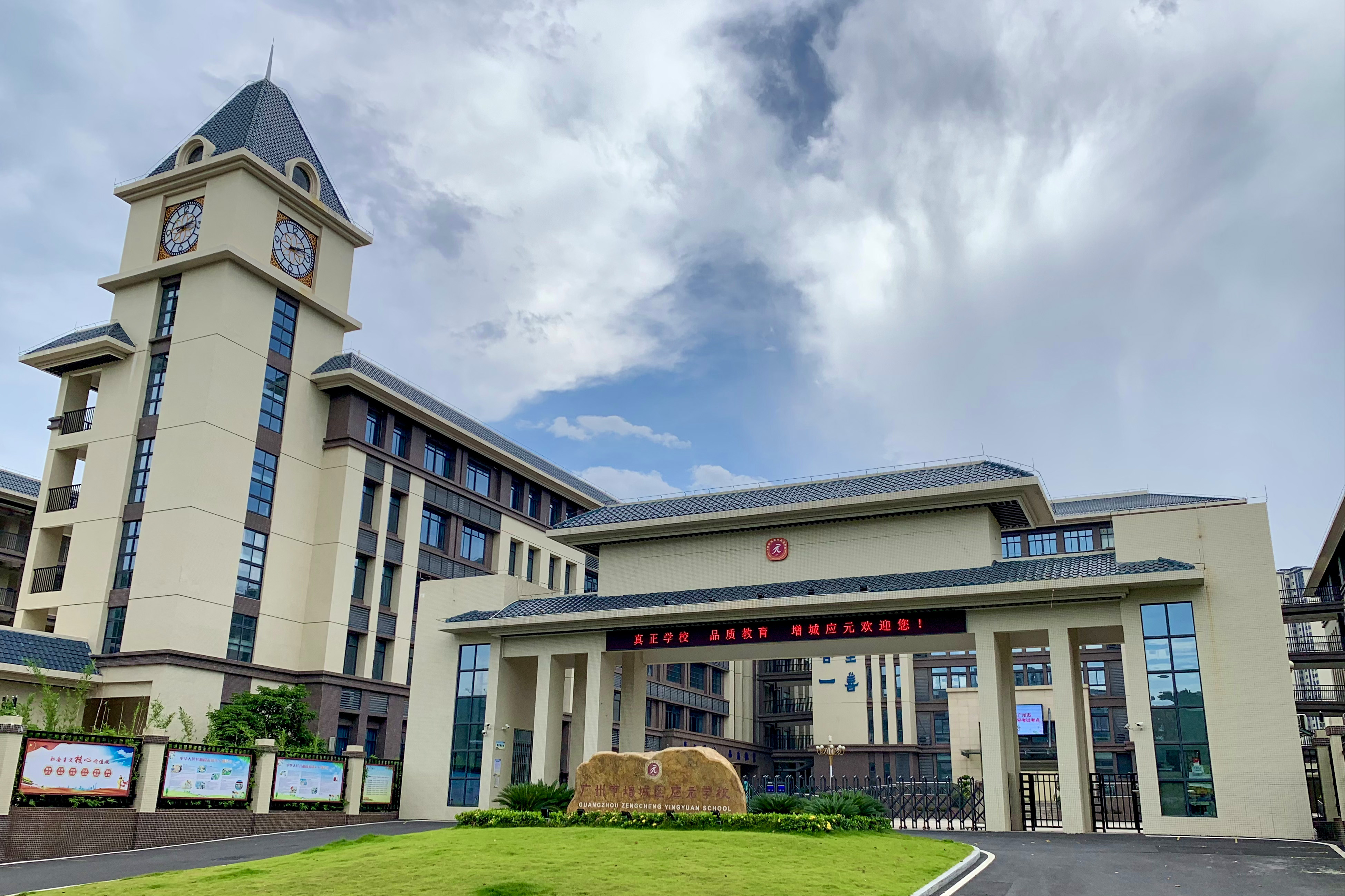 Main entrance of Guangzhou Zengcheng Yingyuan School